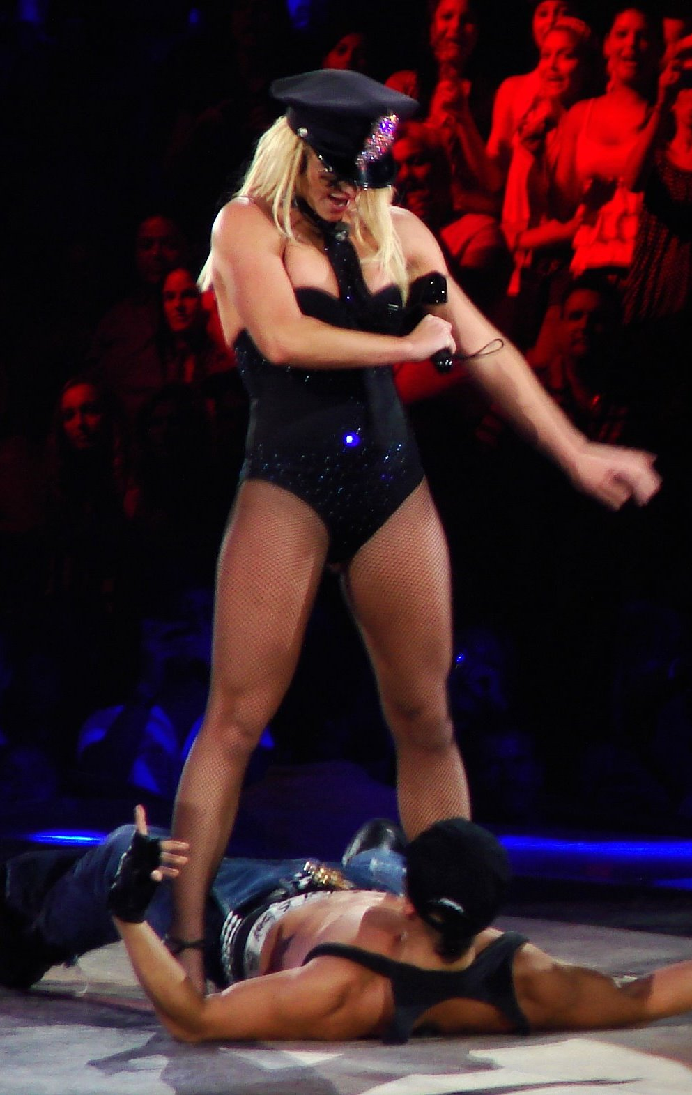 Spears performing in Miami